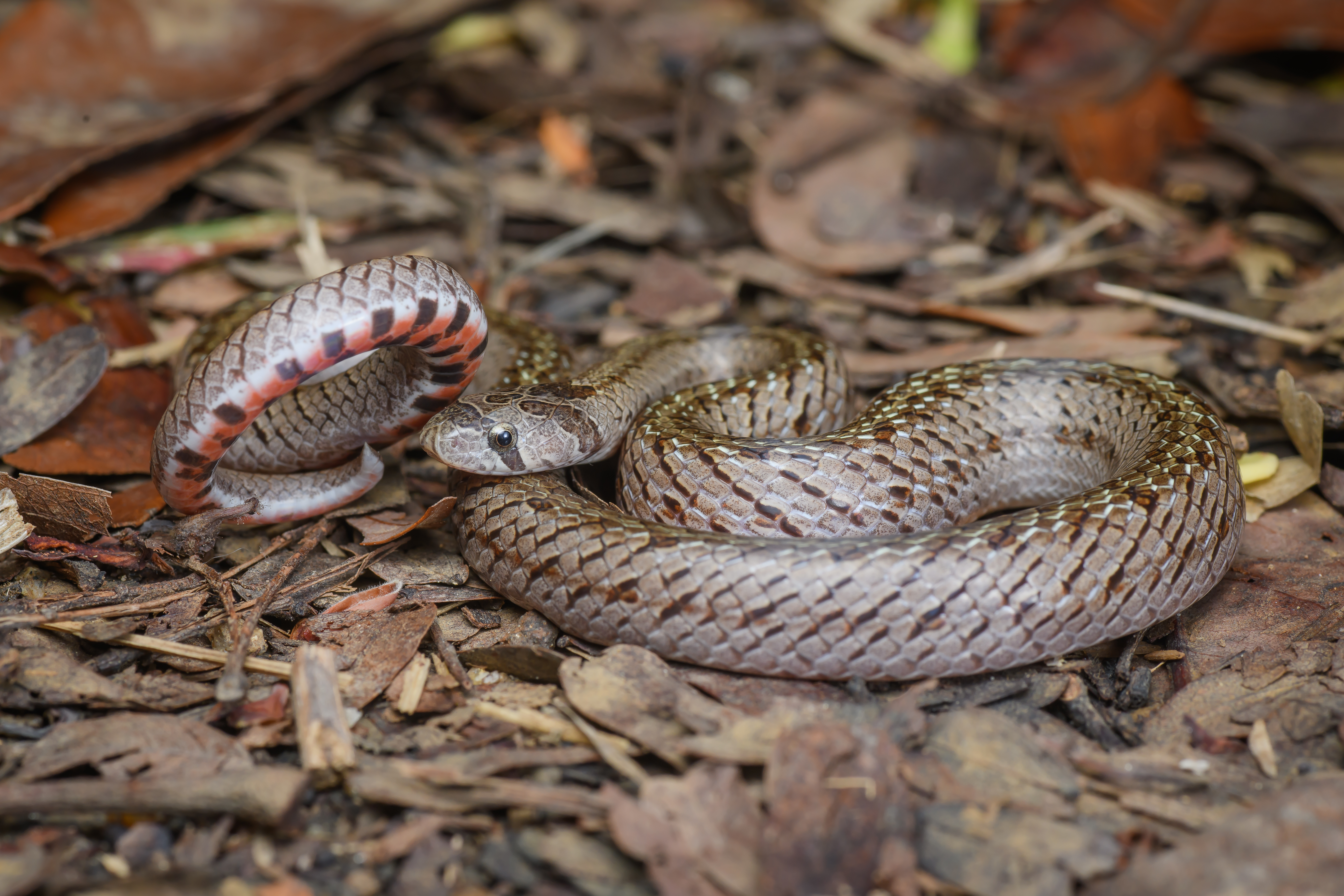 This photo is published under Creative Commons Attribution-Share-Alike Licence, means you are free to use this photo with attribution under same licence. For credits, please use following; Owner: Thai National Parks Link